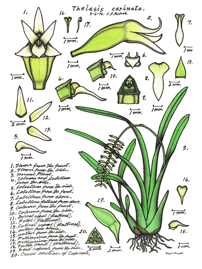 This image is one of a series by Lewis Roberts